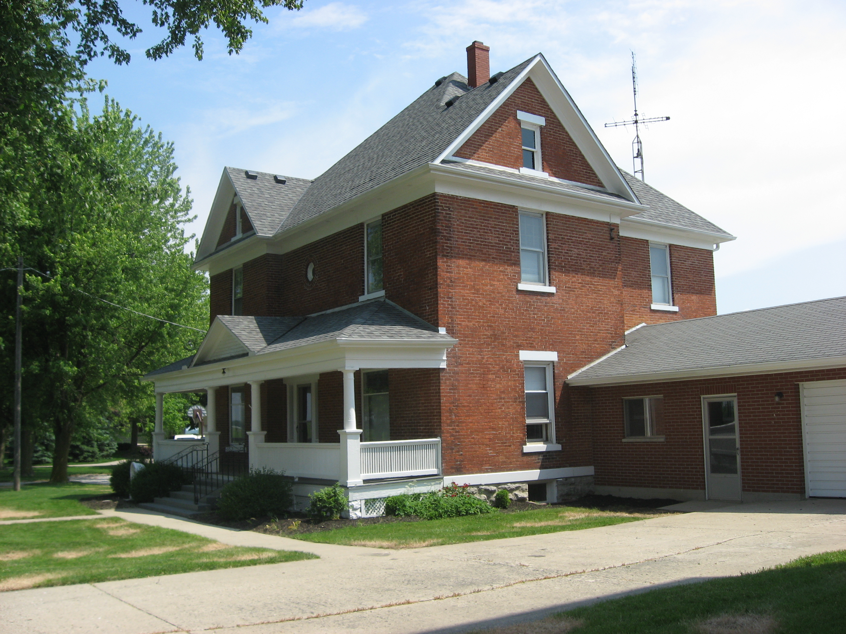 Front and southern side of St. Sebastian's Catholic Rectory, located at the center of Sebastian, an unincorporated community in Marion Township, Mercer County, Ohio, United States. Built in 1905, the rectory and its church were listed together on the National Register of Historic Places as a part of the Cross-Tipped Churches of Ohio Thematic Resources.